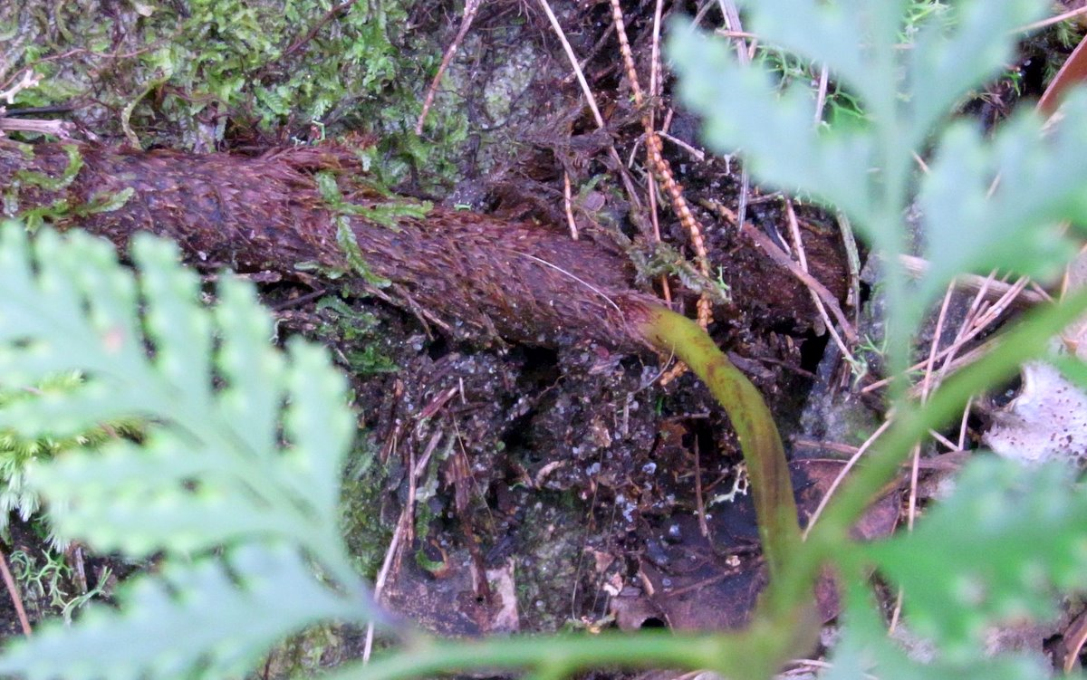 Hares foot on Hawkesbury Sandstone. West Head, Ku-ring-gai Chase National Park, Australia. Fern is likely to be Davallia solida var. pyxidata